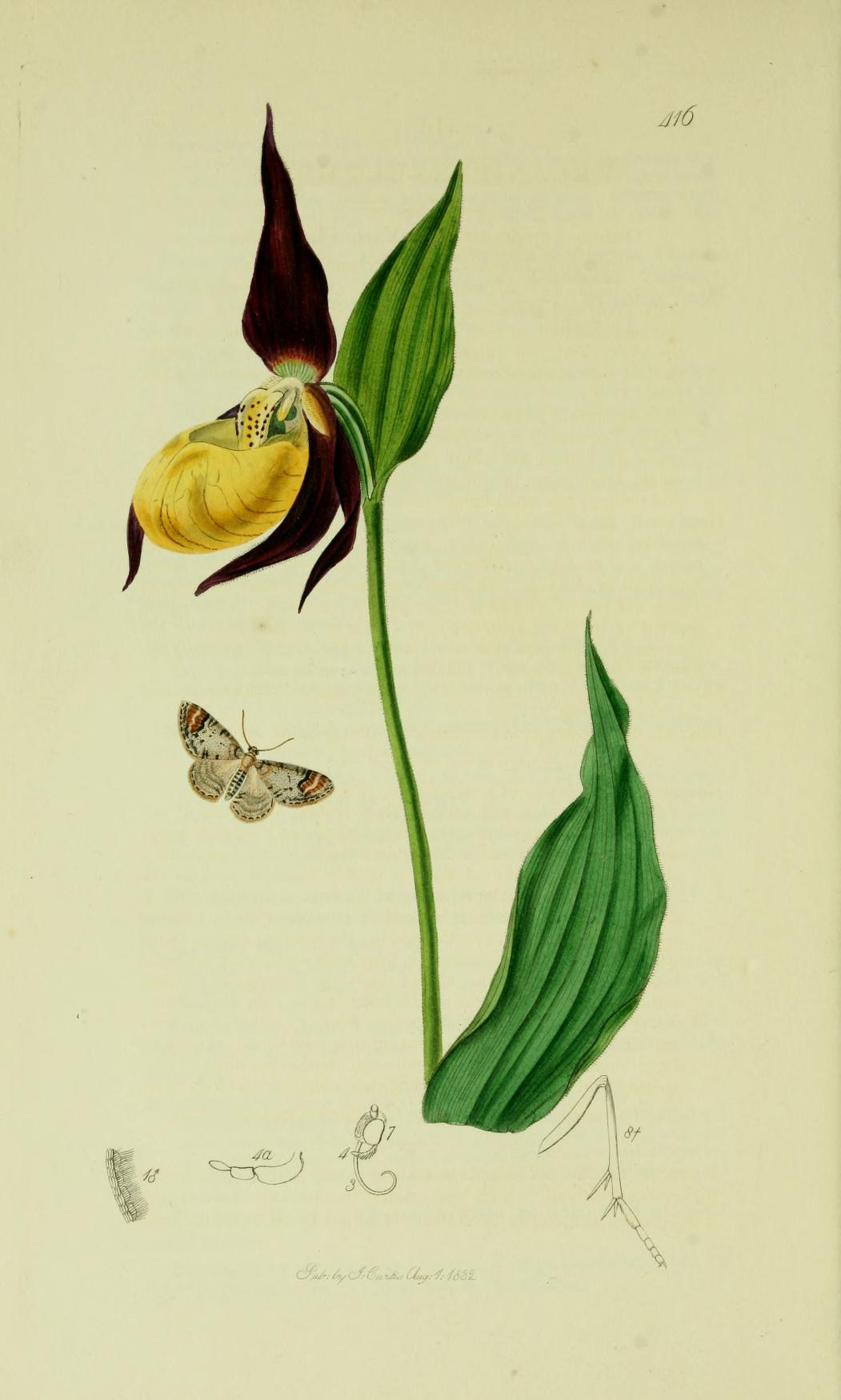 An illustration from British Entomology by John Curtis. Lepidoptera: Melanippe blomeri or Discoloxia blomeri or Venusia blomeri (Blomer’s Rivulet) and Cypripedium calceolus